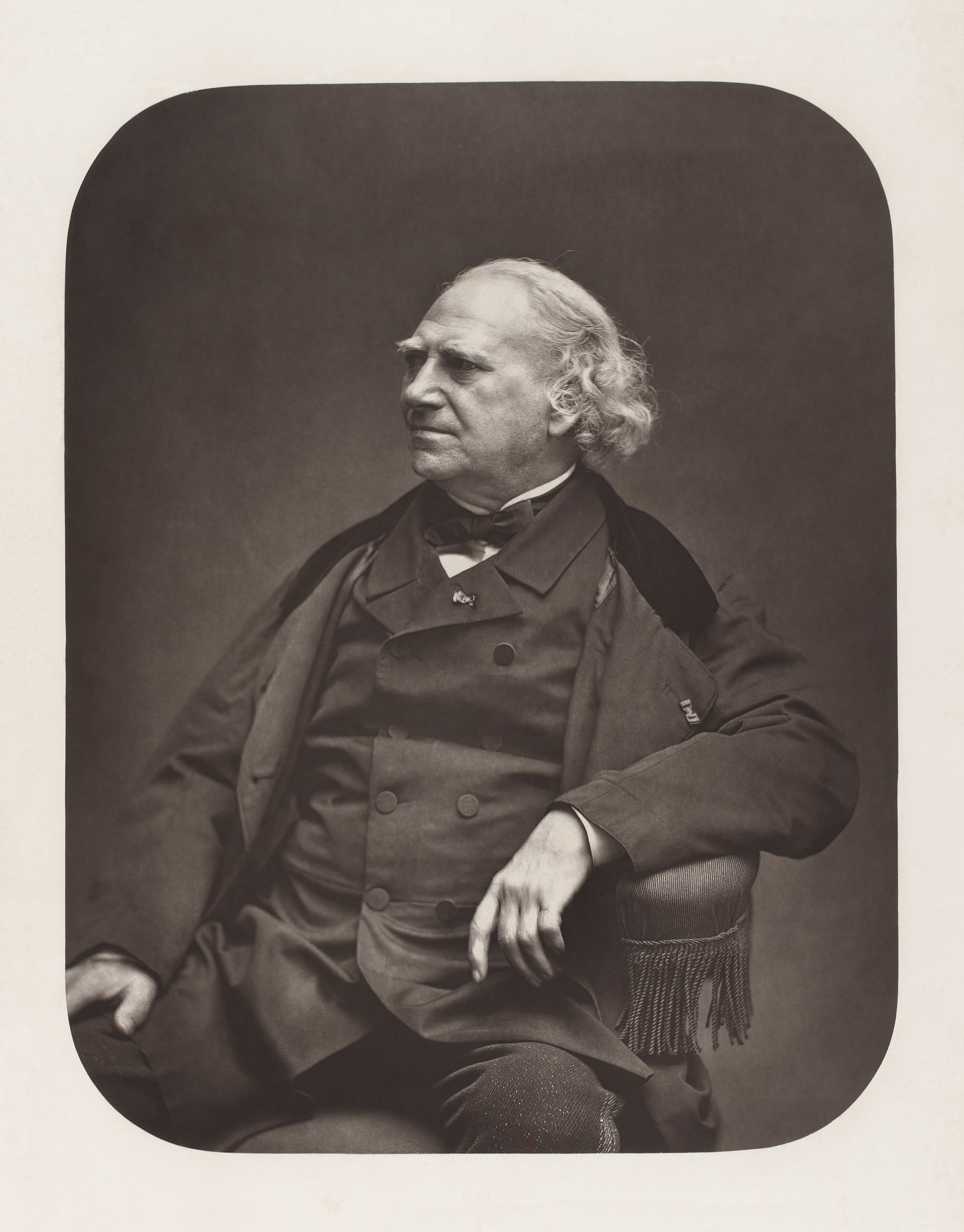 Louis Désiré Blanquart-Evrard (1802-1872), French chemist, printer and photographer, inventor of the albumen print process in photography. Reproduction (by the author himself) in his 1869 book (La photographie, ses origines, ses progrès, ses transformations / by Blanquart-Evrard) of an albumen print.